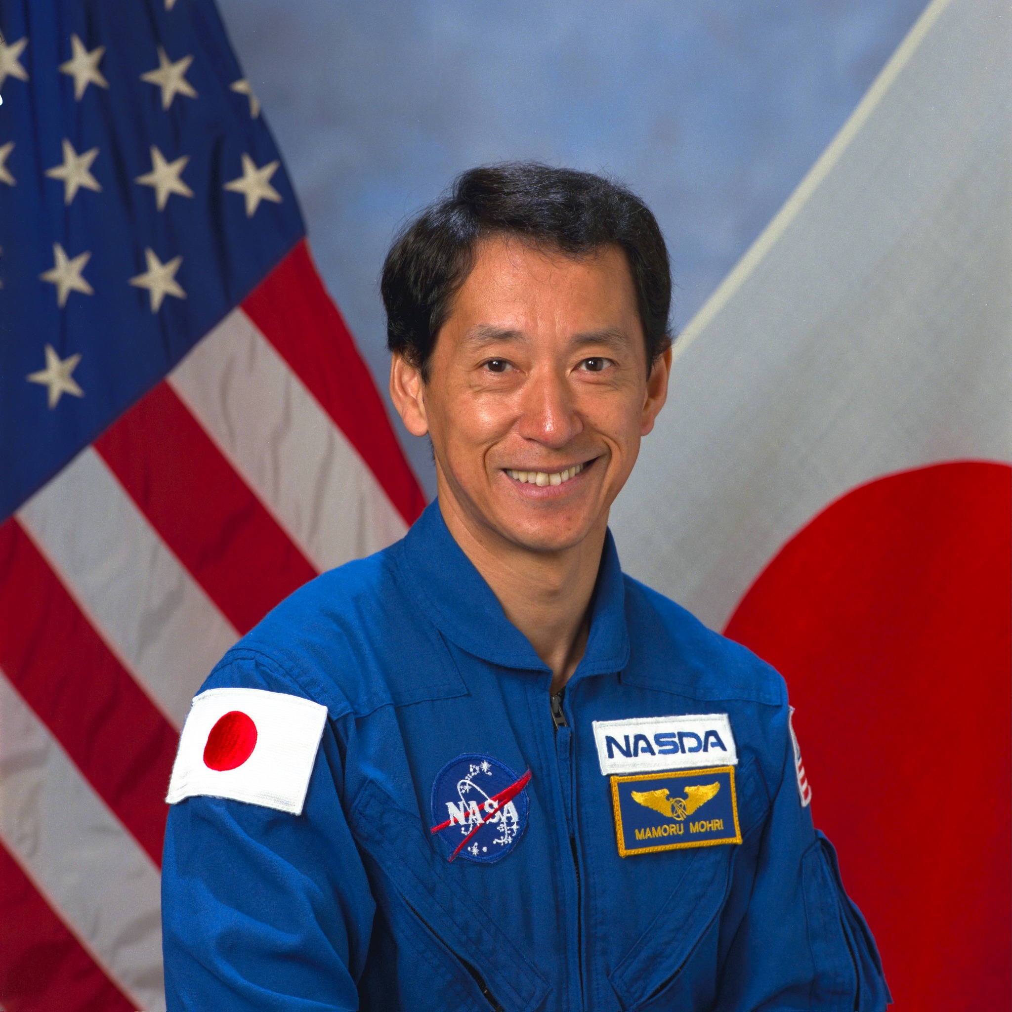 Official portrait of Japanese astronaut; Mamoru Mohri